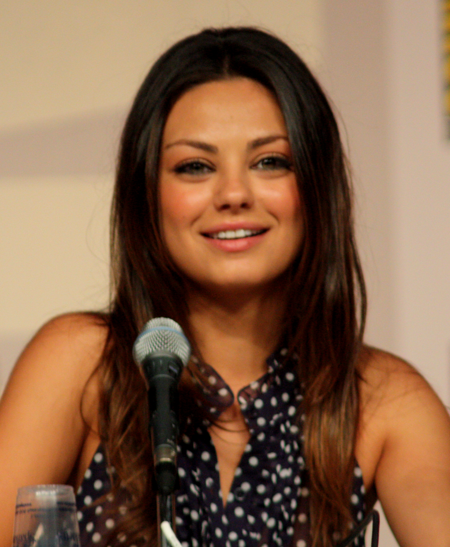 Mila Kunis at the 2009 Comic Con in San Diego.